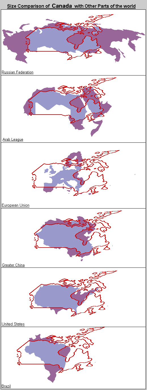 Map comparing Canada area with other regions